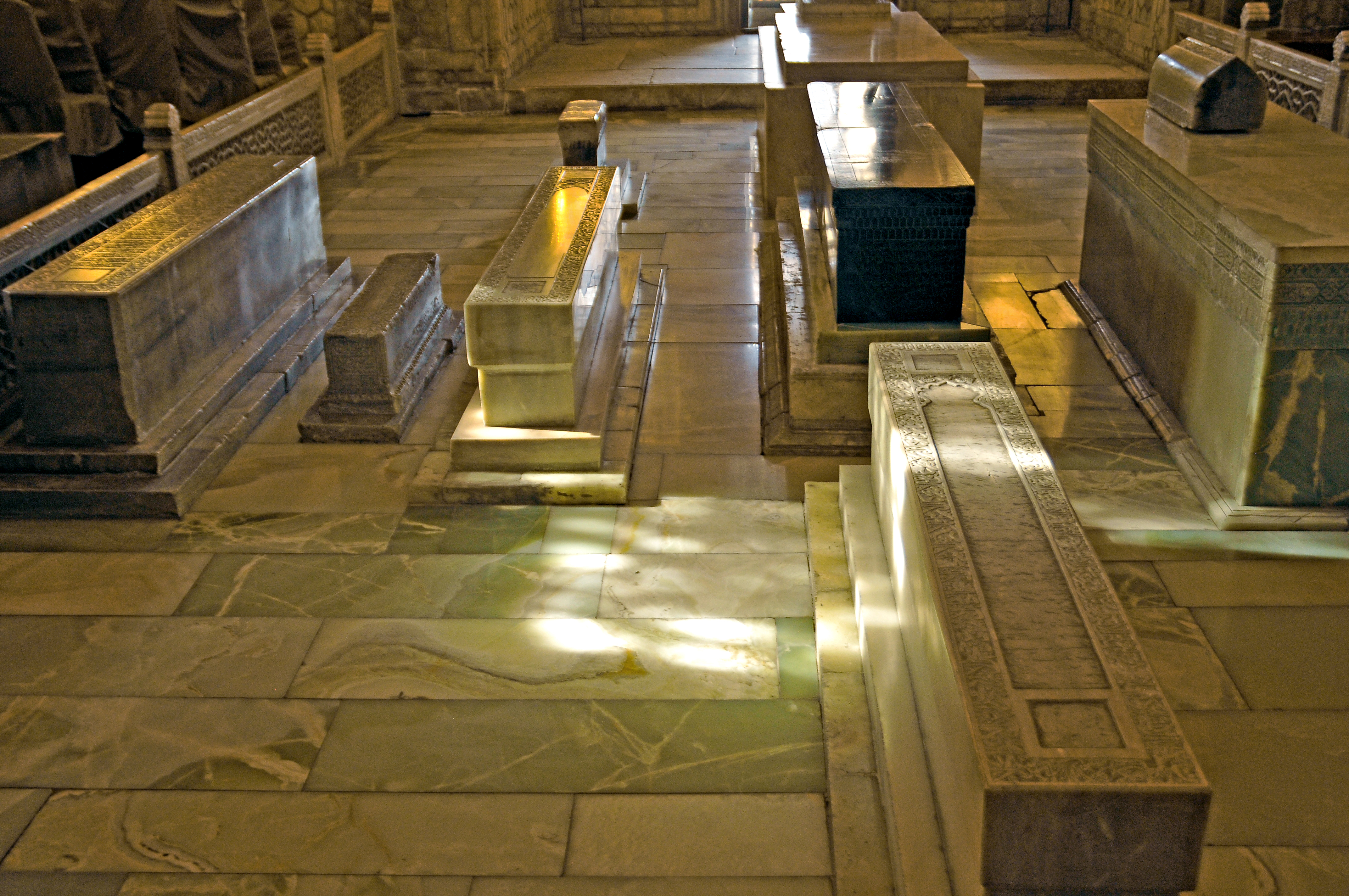 Tombs inside the Timur Lang Mausoleum [Gur-e Amir]. Samarkand, Uzbekistan